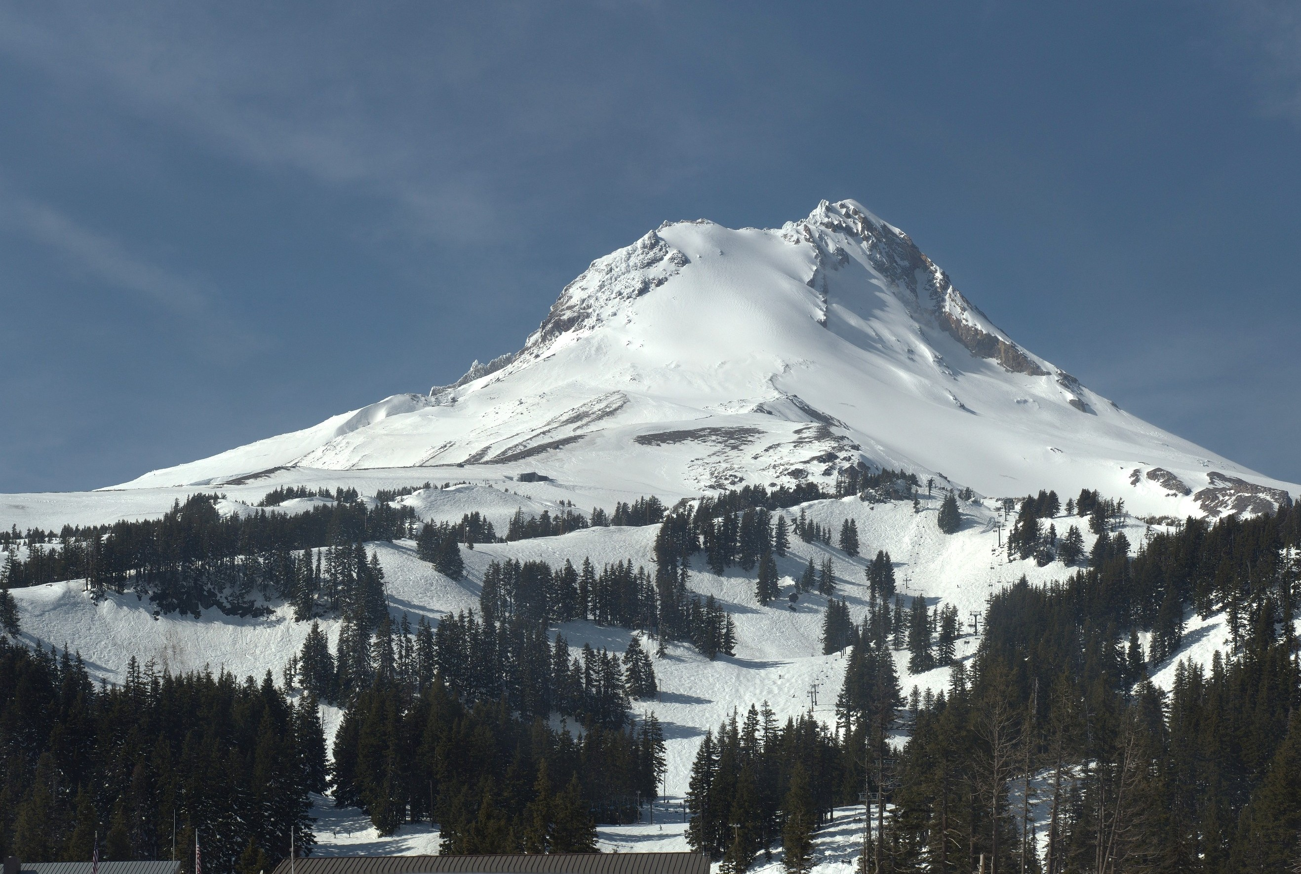 Two image panorama (assembled with Hugin) of Mt Hood Meadows from the main parking lot taken with a Nikon D90 + 60mm Micro Nikkor lens.